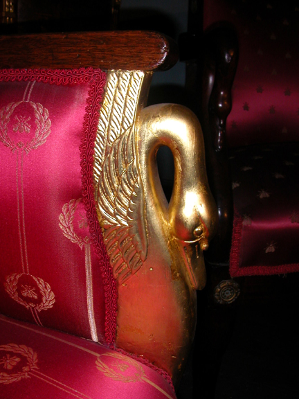 My own photo